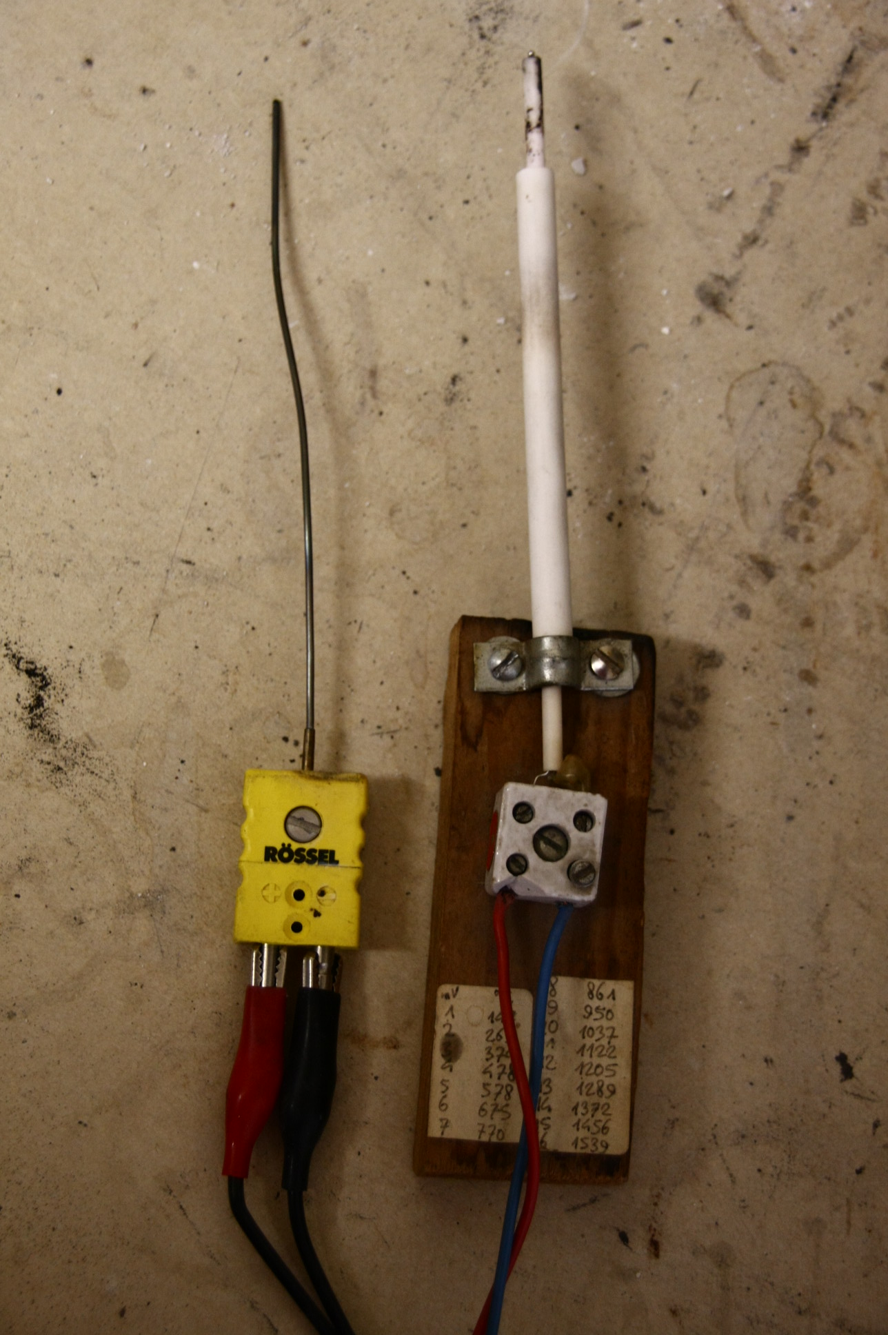 Type K and S thermocouples.